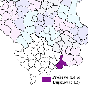 Map showing position of Presevo Valley.